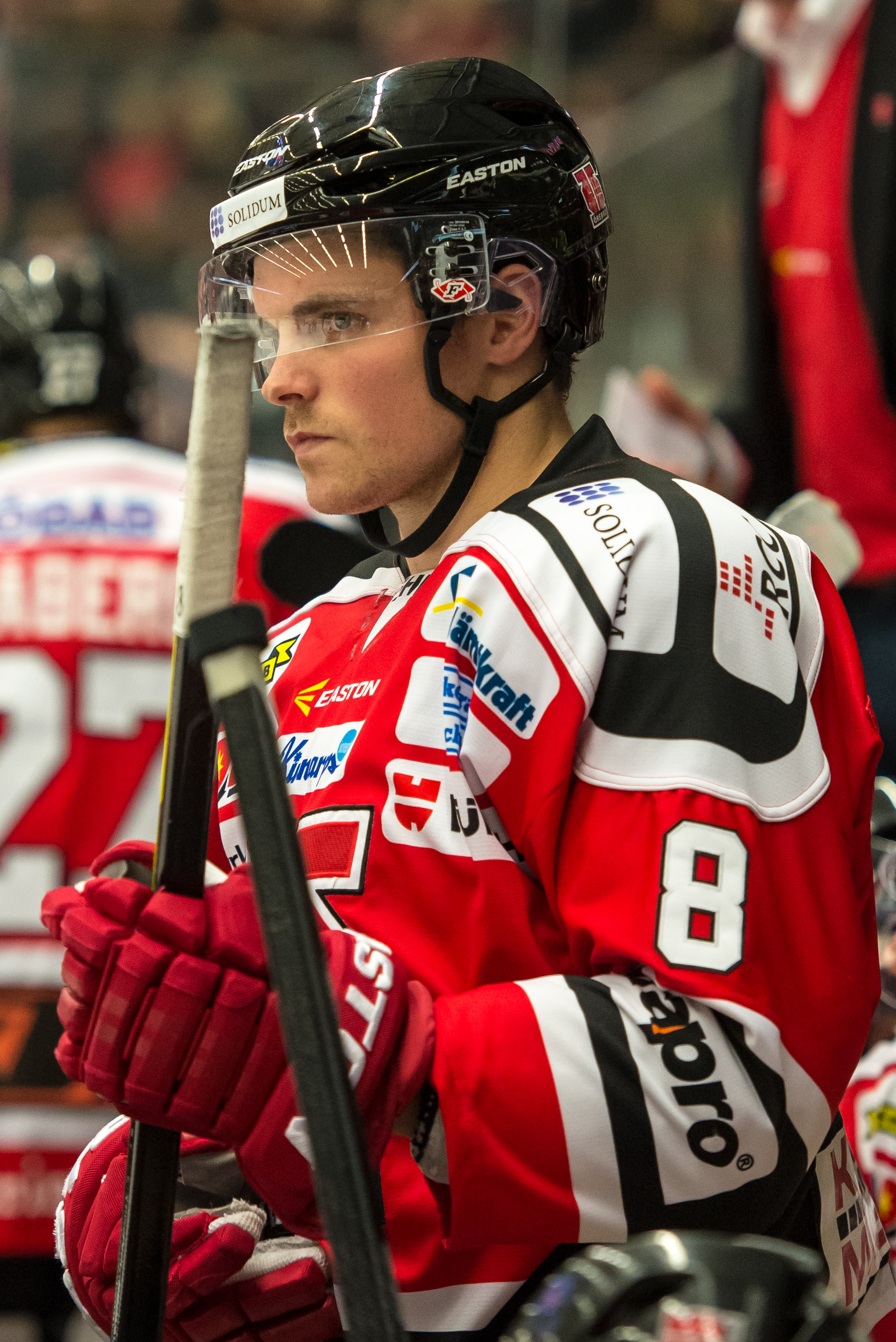 Nick Plastino playing for Örebro HK in SHL (Sweden's highest league) against MODO Hockey in Behrn Arena 2013-10-05.